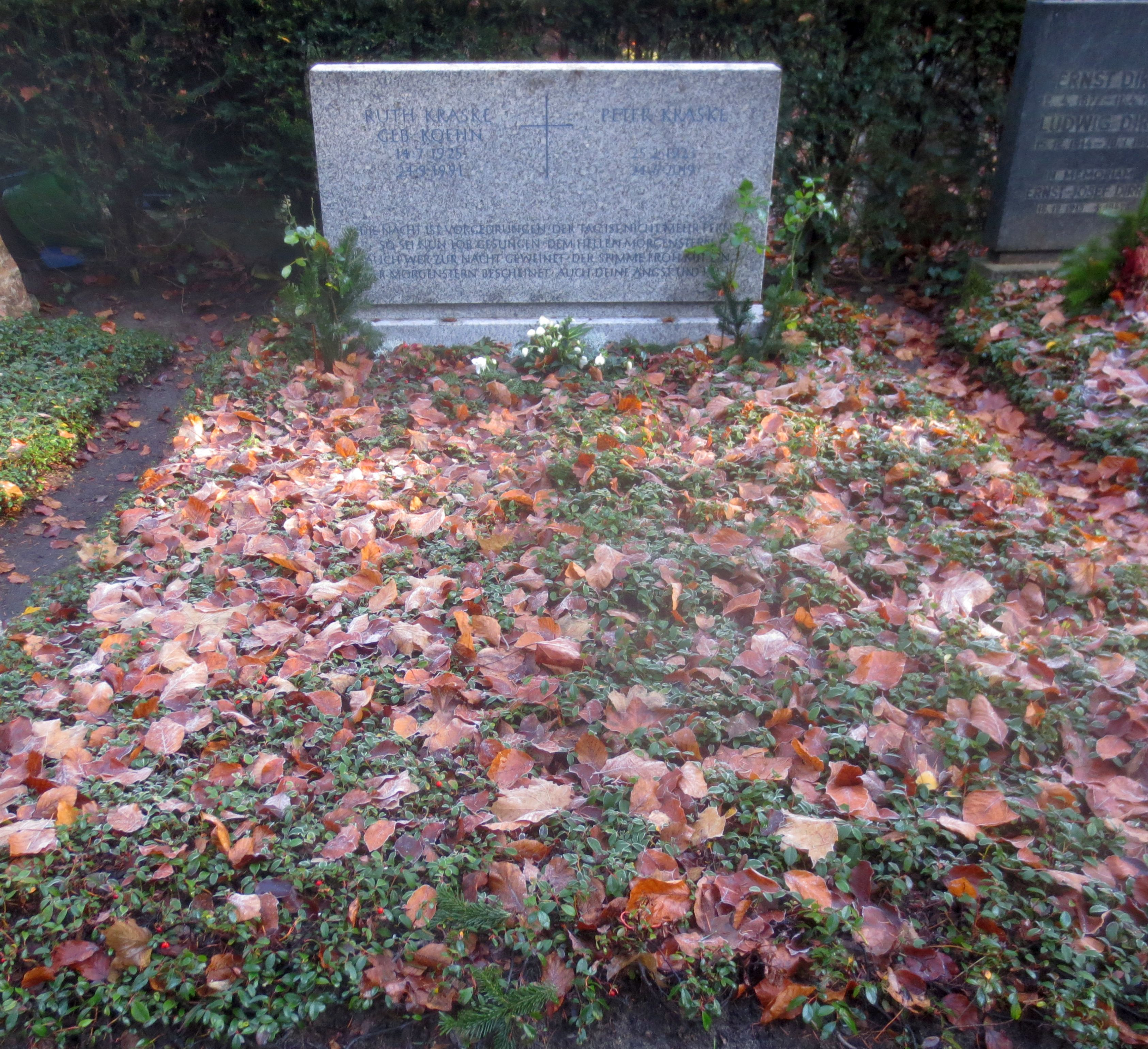 Grave of the theologian Peter Kraske (1923-2019) on the Friedhof Heerstraße cemetery in Berlin-Westend.